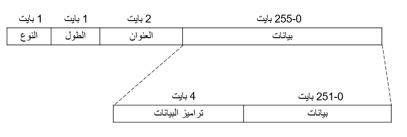 NPL network packet.